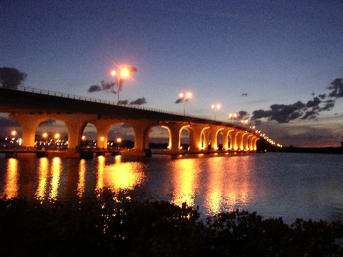 Keywords: vero beach power squadron, vbps, bridge, Merrill P. Barber Bridge, vero beach, water, scully, fl, flashing beacon # 137, fixed bridge, Indian river, 2008 night photo